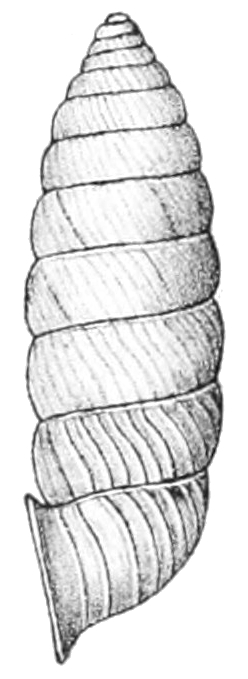 Drawing of lateral view of shell of Holospira pasonis.